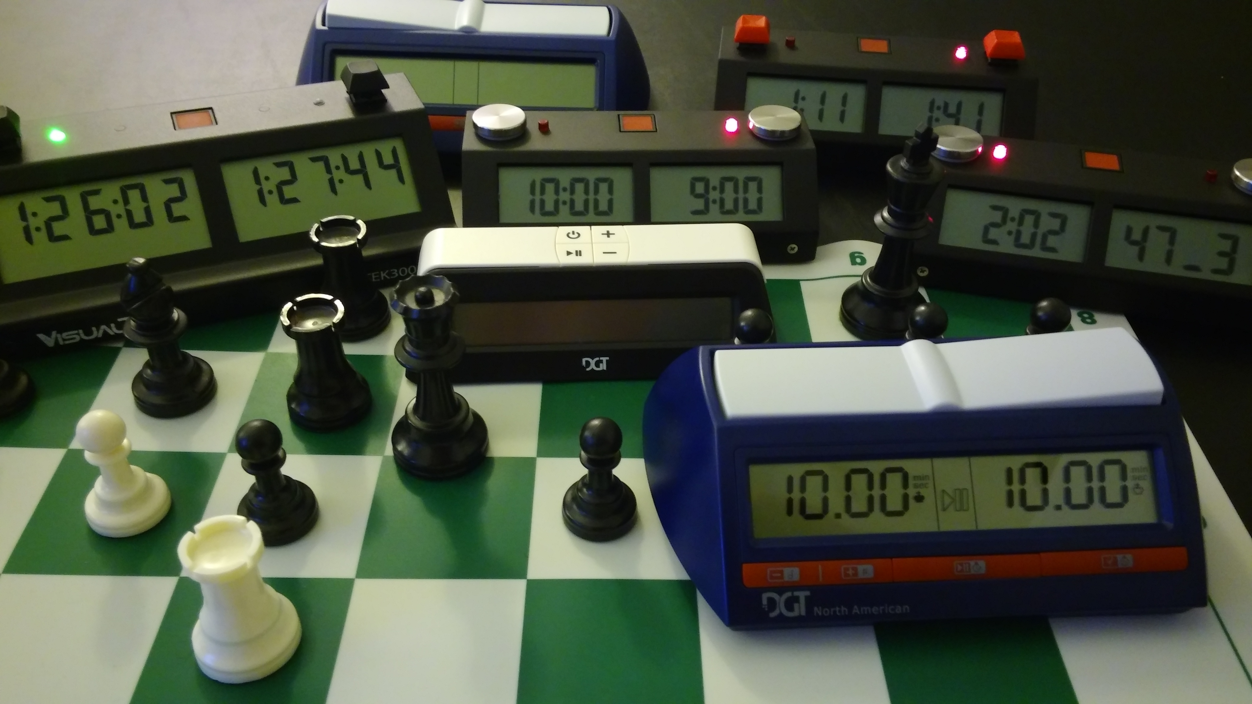 Modern day chess clocks. Chronos GX, Visualtek VTEK300, DGT North American, DGT1001.